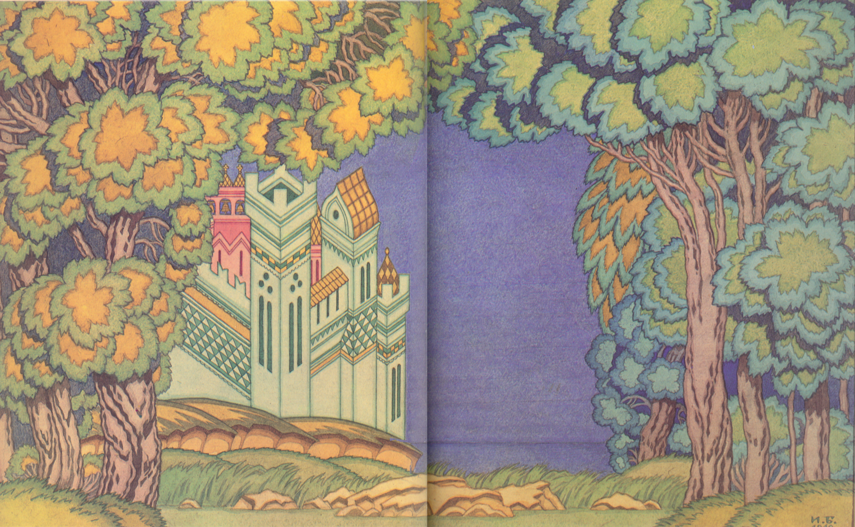 Bilibin's scenery for the opera by Rimsky-Korsakov The Tale of Tsar Saltan